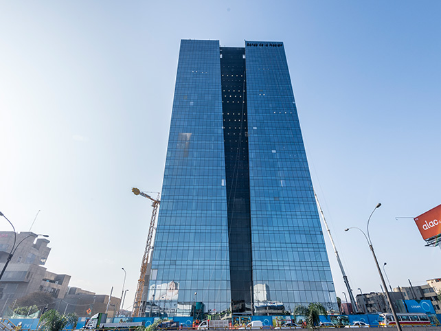 Edificio mas alto del Perú